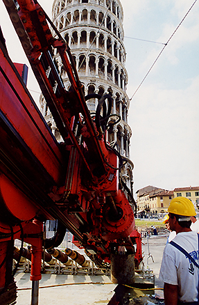 Trevi Spa working with an SM-405 at the consolidation of the Leaninig Tower of Pisa